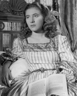 Aline Marney- actriz